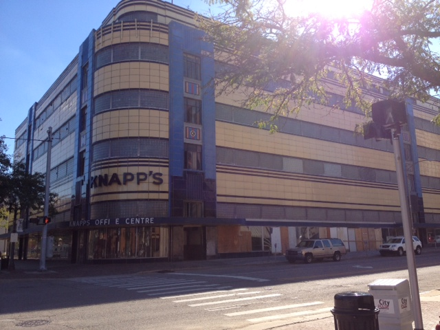 J.W. Knapp Company Building